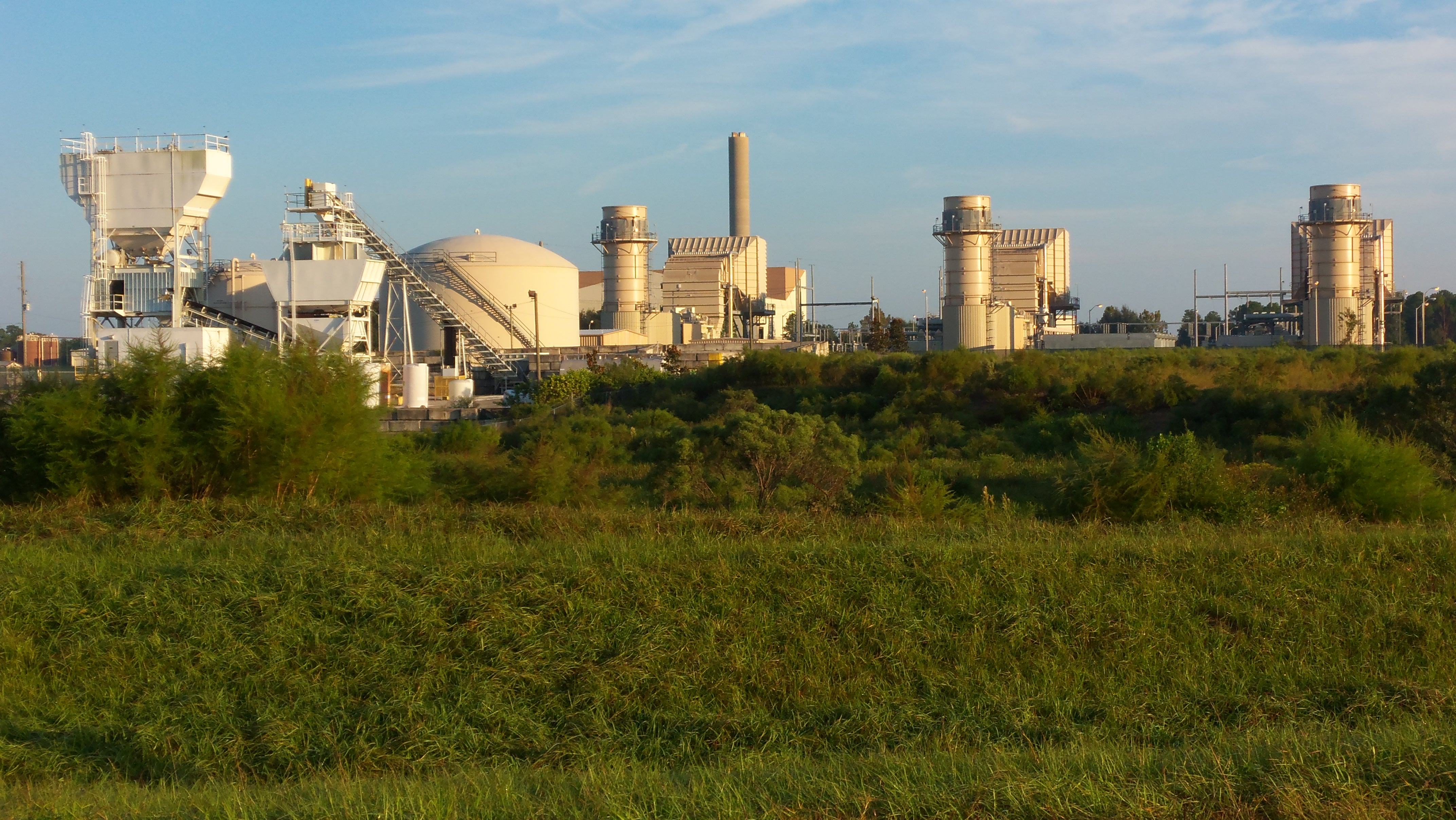 Shady Hills Power Plant, Florida